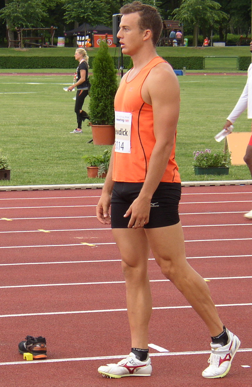 Athlete Brent Newdick of New Zealand preparing for his attempt in long jump during men's decathlon at 5th edition of the TNT - Fortuna Meeting (IAAF World Combined Events Challenge Meeting, Sletiště Stadium, Kladno, Czech Republic, 15 June 2011, 13:14).